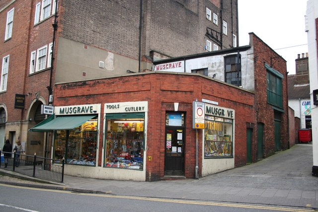 Musgrave's Famous tool shop on Clasketgate - whatever tool you need, Musgrave's sell it !